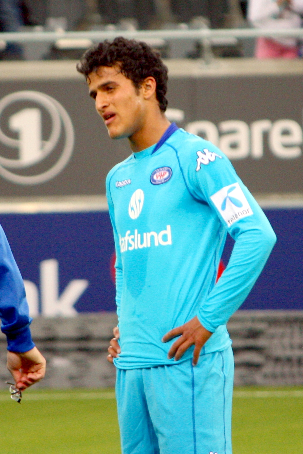 Norwegian footballer Harmeet Singh.